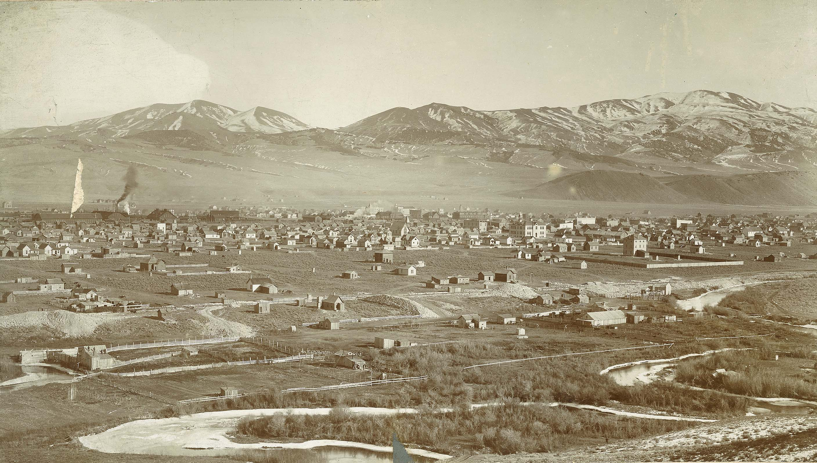 A view of a town with mountains in the background. Probably photographed by Charles R. Savage.